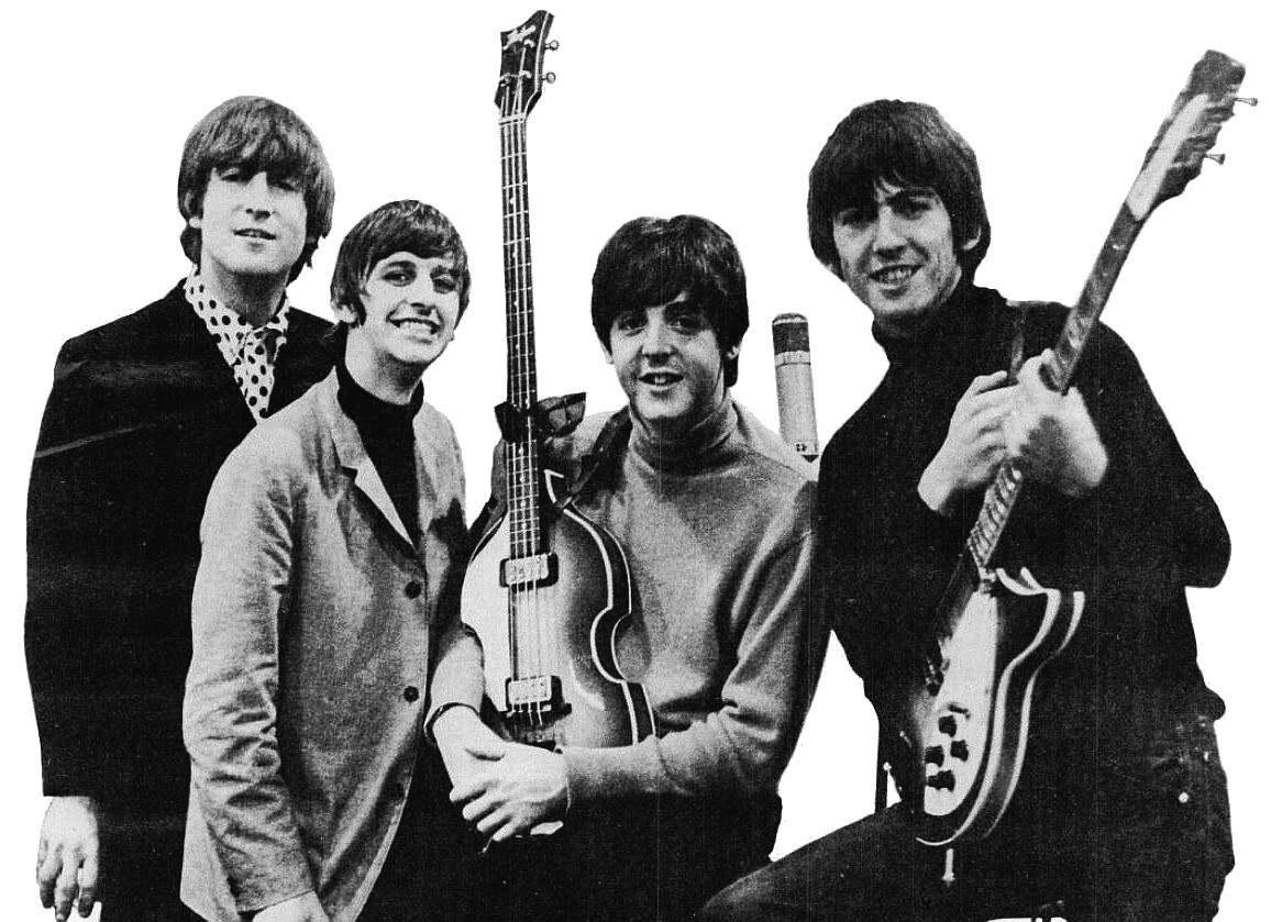 Trade ad for Beatles' 1964 Grammys. --- This is a version with just the Beatles isolated from the ad.